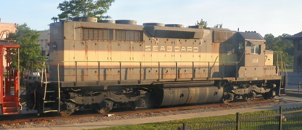 Seaboard Air Line 1114, an EMD SDP35 diesel-electric locomotive, is a static display in front of the Hamlet, NC Amtrak station.